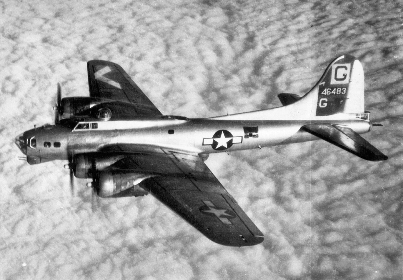 A B-17 Flying Fortess (serial number 44-6483) nicknamed "Ruby's Raiders" of the 385th Bomb Group.